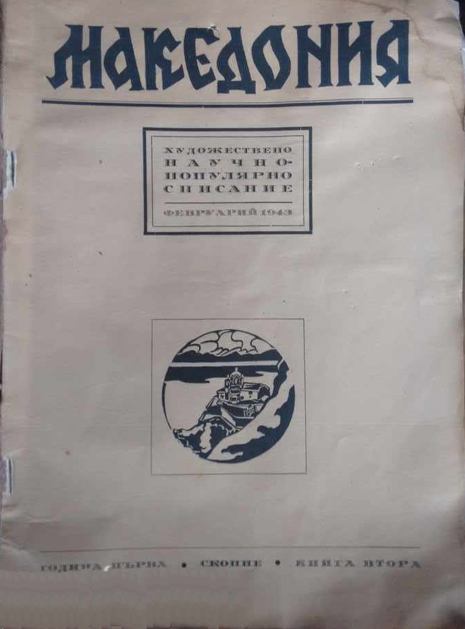 Makedonia Magazine